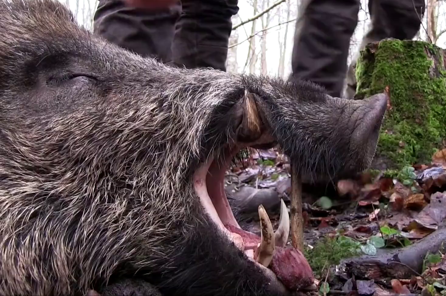 Dead wild boar with big tusks shot on a driven hunt in Sweden